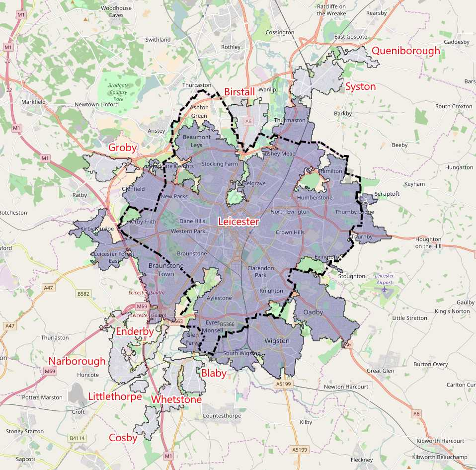 Leicester built-up area (BUA) in 2011, showing subdivisions, and city (Unitary Authority) border